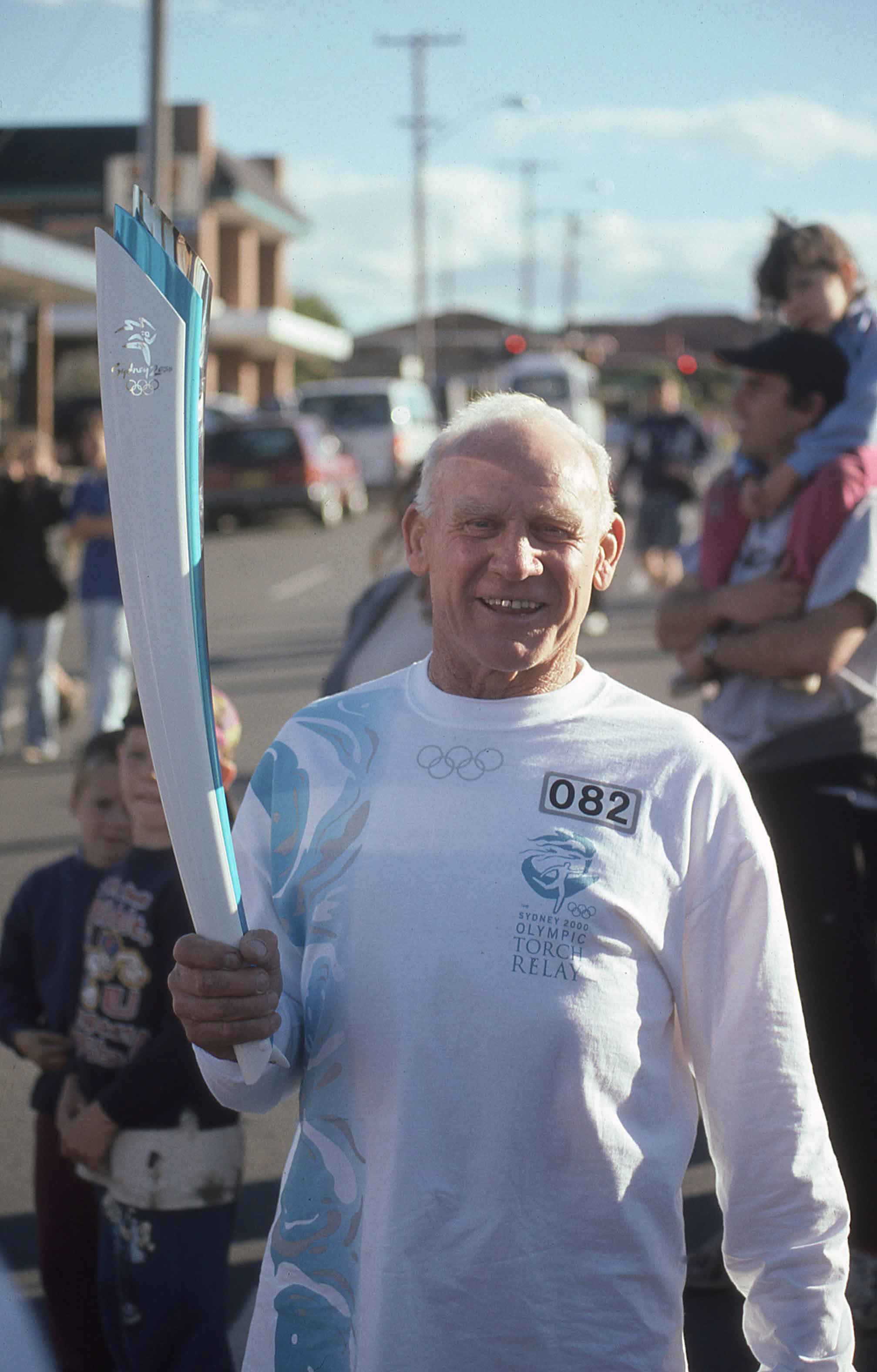 Fred Atkins takes the torch through Taree, NSW on its way to Sydney.